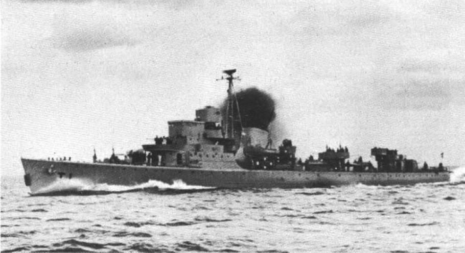 The Danish torpedo boat Huitfeldt underway. Huitfeldt and her sistership Willemoes were two 901 to ships commissioned in 1947. Huitfeldt wore the pennants "T1", "D320" (1951-58) and "P520" (1958-1964). The ships were originally named Aarhus and Aalborg in 1939, but the names were changed to Nymfen and Najaden. They were laid down in 1942 and launched in mid-1943. Construction stopped in August 1943, after Germany had declared martial law in Denmark. The unfinished hulls were laid up at in Copenhagen. Construction was resumed in 1945 and the names were changed to Huitfeldt and Willemoes in October 1945.